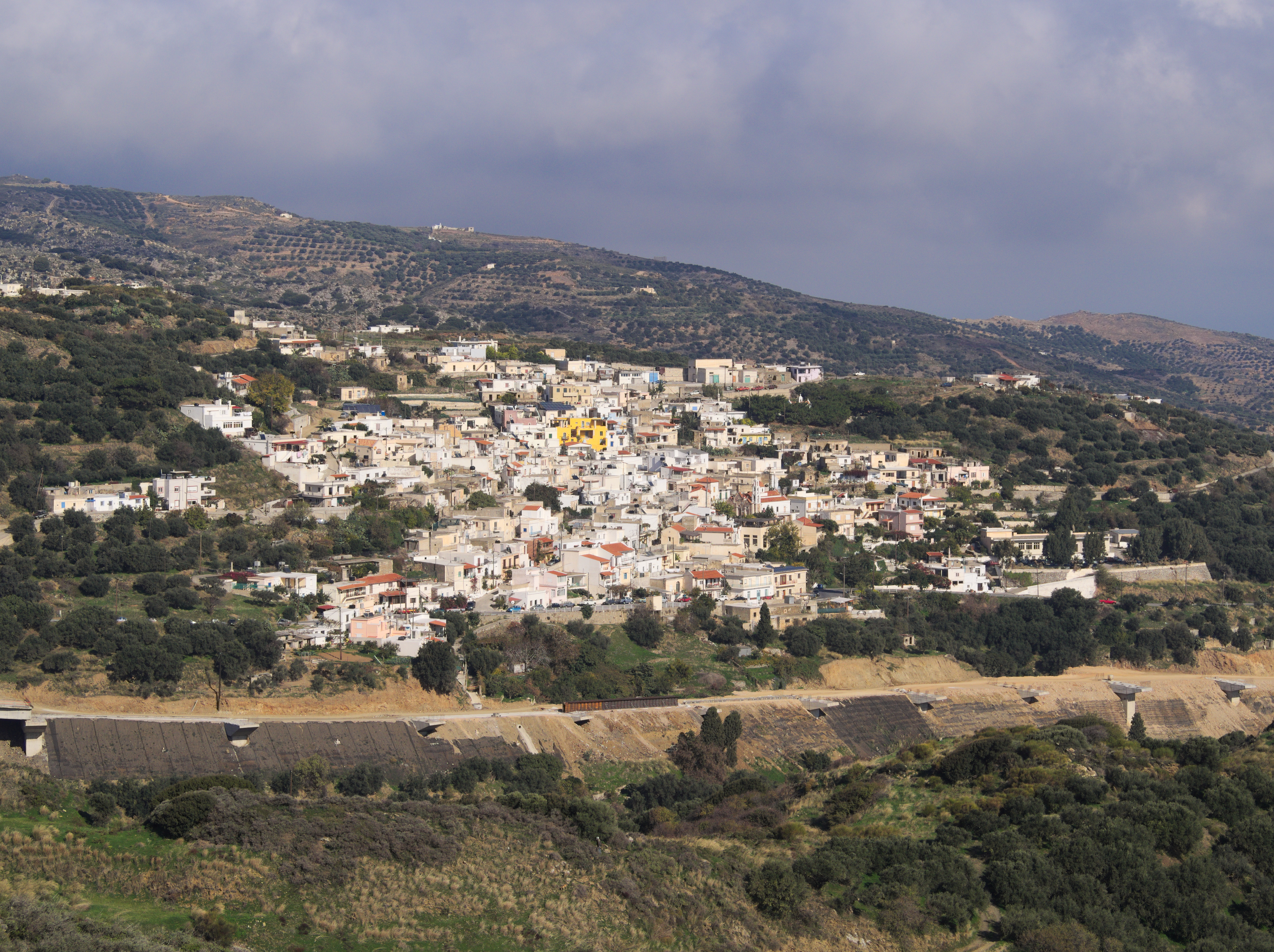 View of village Chamezi, Sitia municipality from south. Below the village is under construction the Chamezi Viaduct, part of E-75.